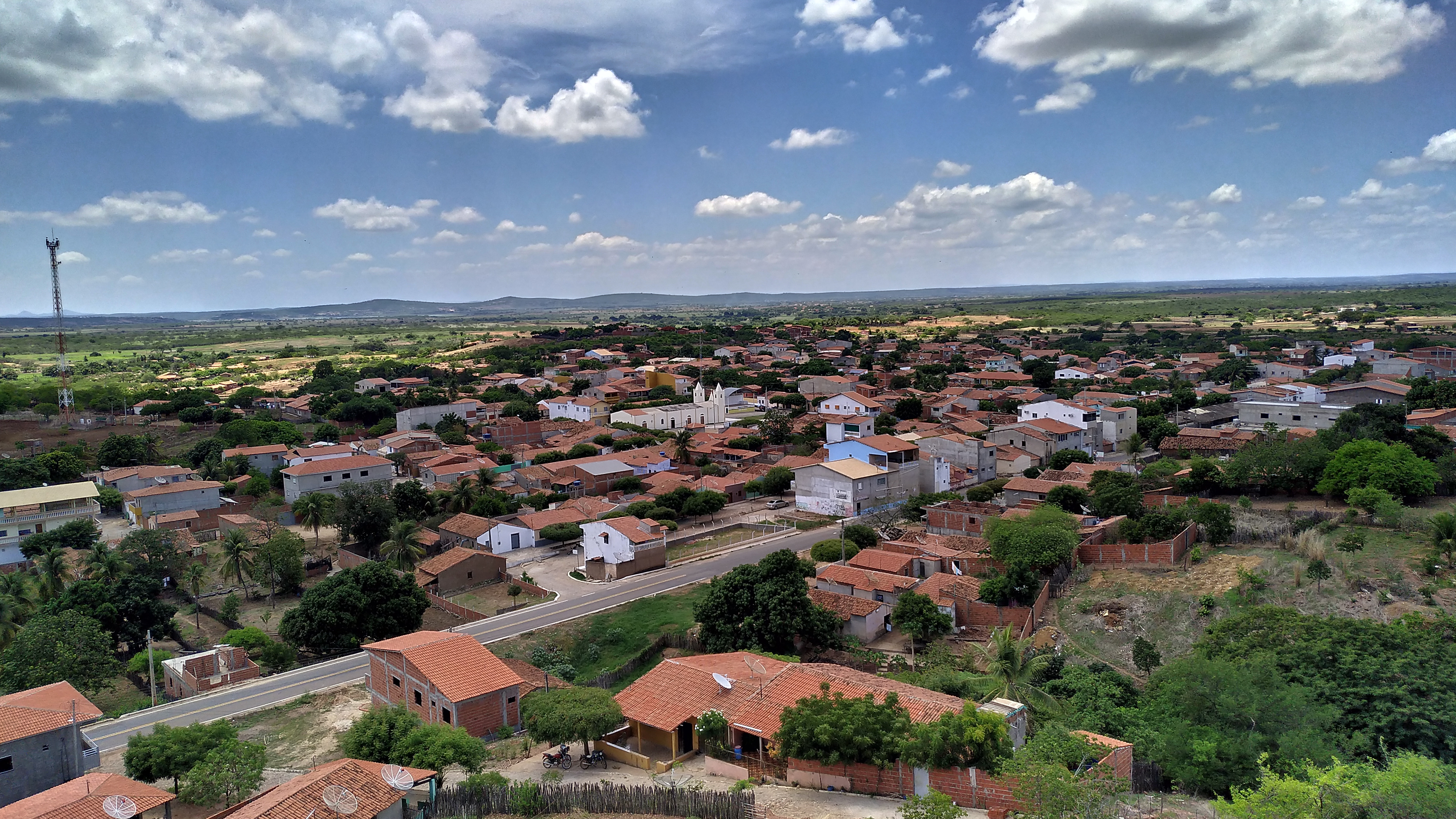 cagece's water-box view.